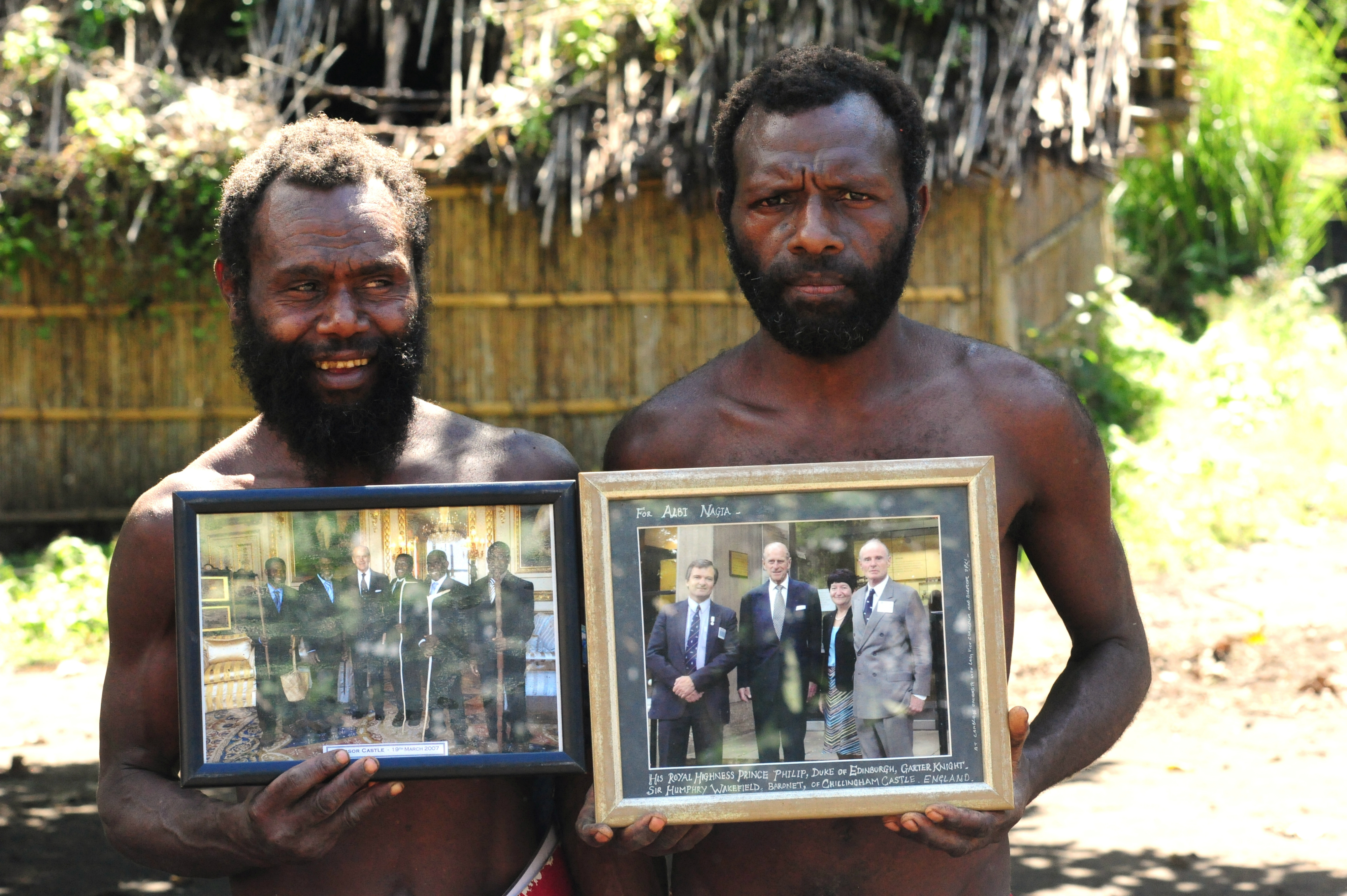 Two Yaohnanen tribesmens show framed pictures of their 2007 visit with Prince Philip, Duke of Edinburgh.